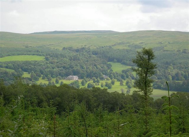 Looking Towards Kilkerran House Looking across the Girvan Valley from Glenshalloch Wood towards Kilkerran House.